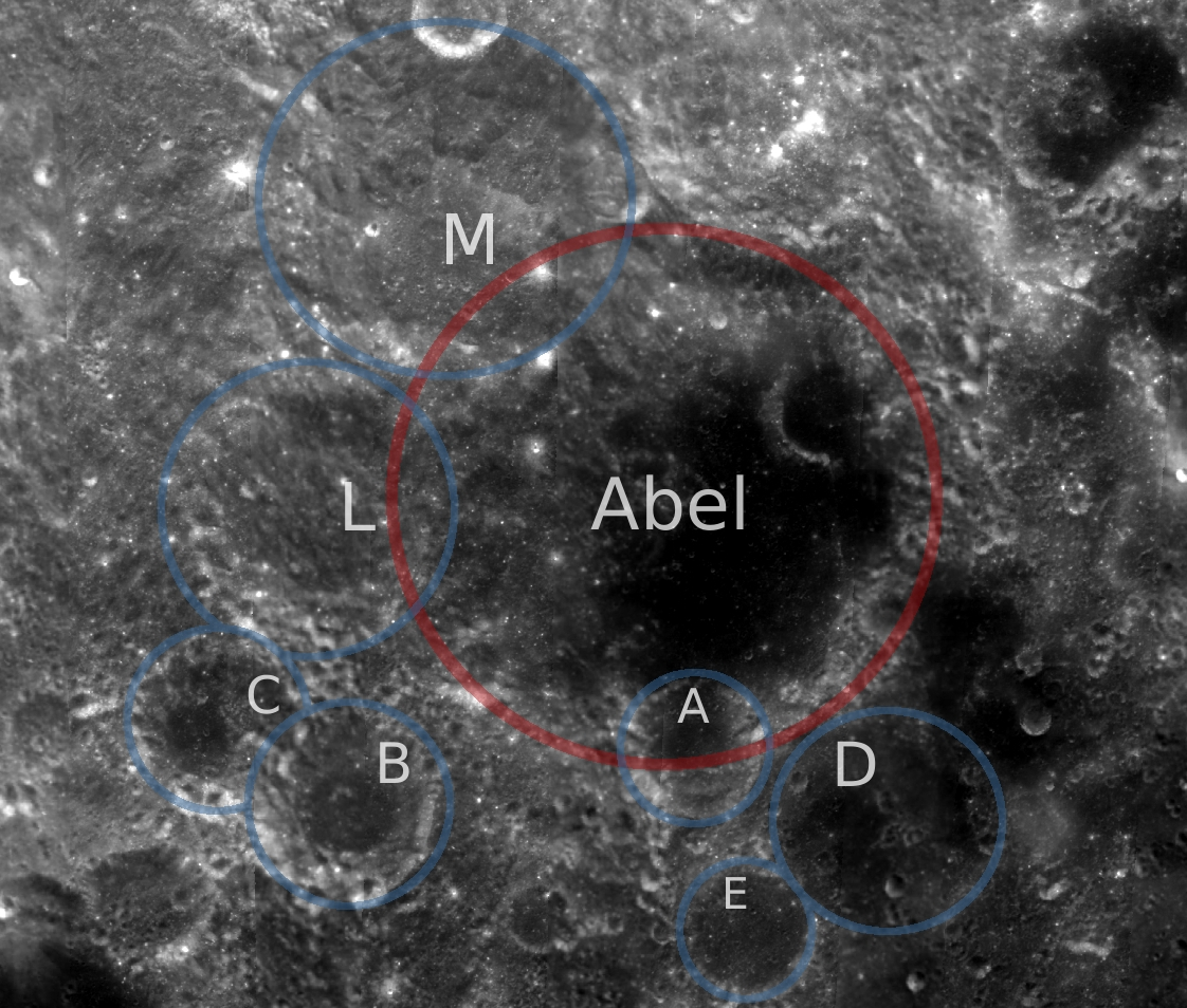 Abel crater and satellite craters A-E + L-M in the southern hemisphere on the right rim of the Moon. Cropped and annotated version (by uploader) of computer generated image by PDS MAP-A-PLANET.